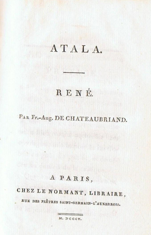 Atala and René, Edition 1805